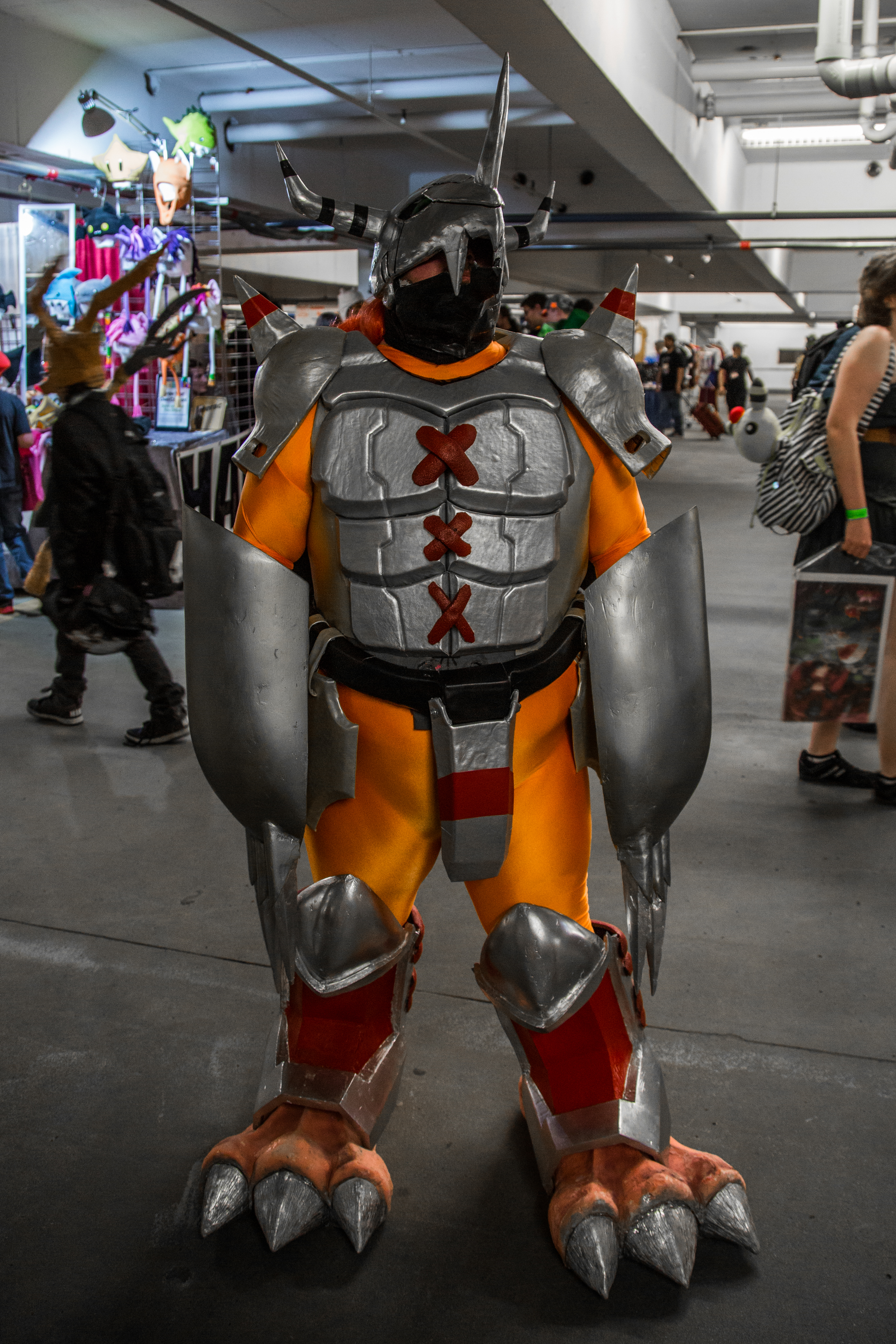 Cosplay of Wargreymon.